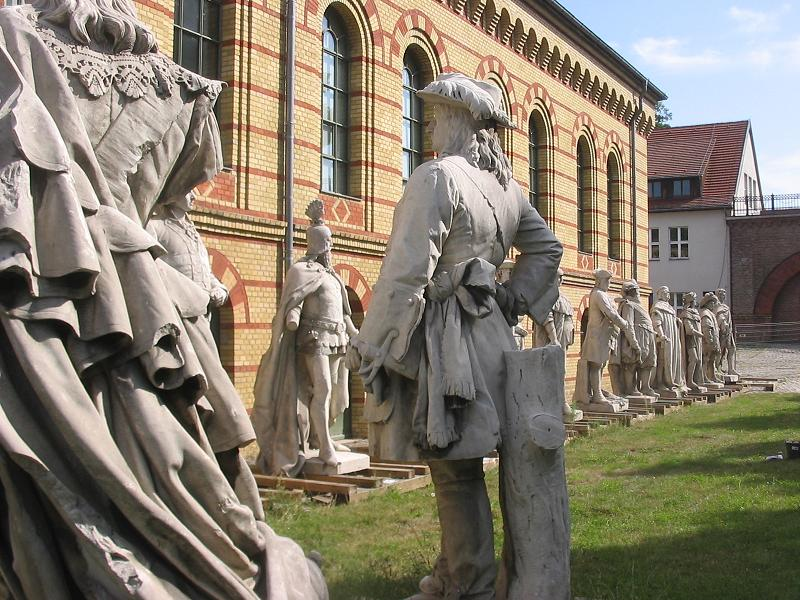 Statues of Berlin's former Siegesallee, shown here in the Spandau Citadel in August 2009, before their conservation-restoration.